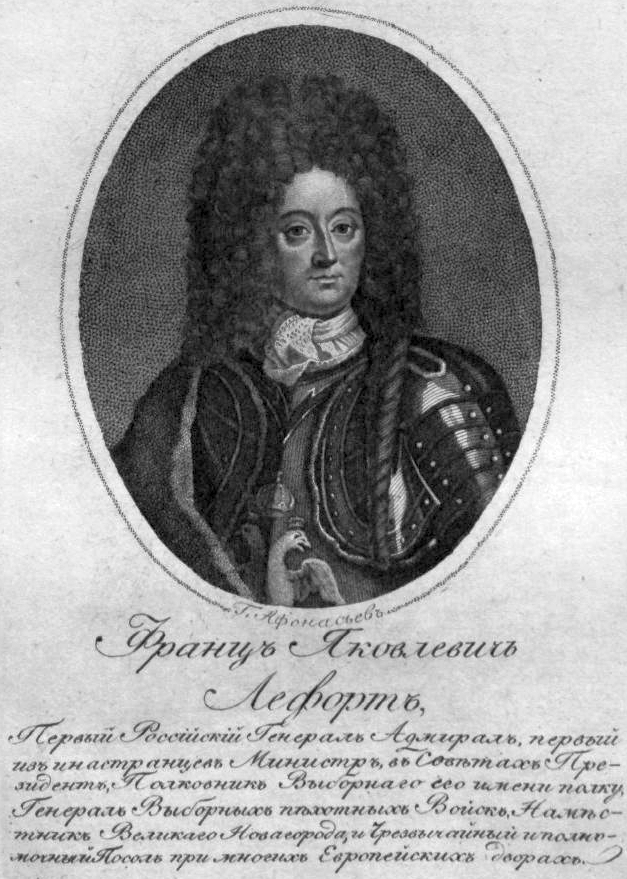 Franz Lefort